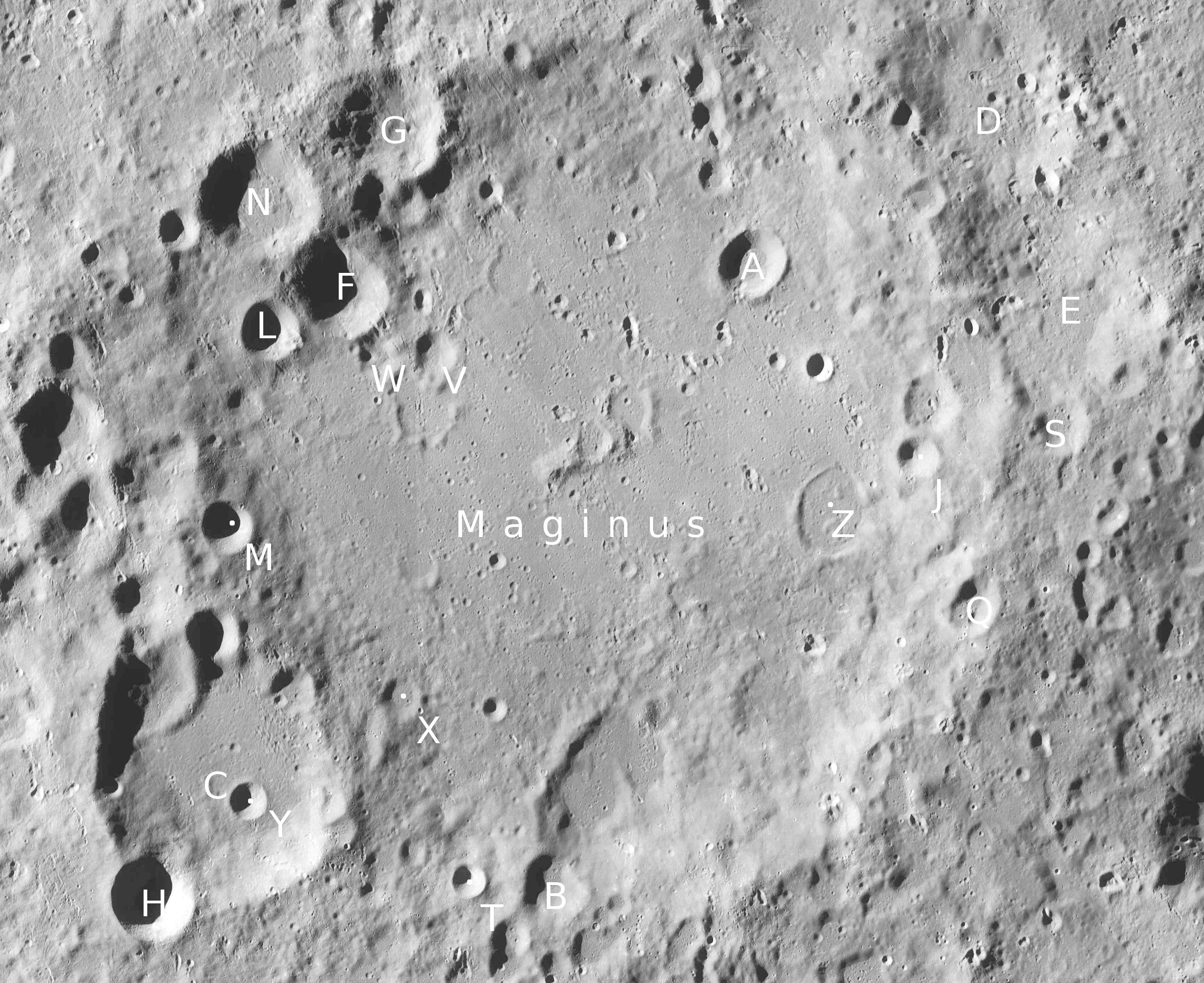 Crater Maginus with satellite features (detail of LRO - WAC global moon mosaic; Mercator projection)